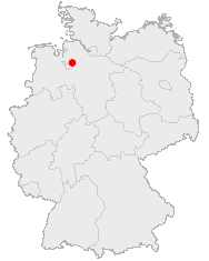 Location map of Worpswede, Lower Saxony, Germany